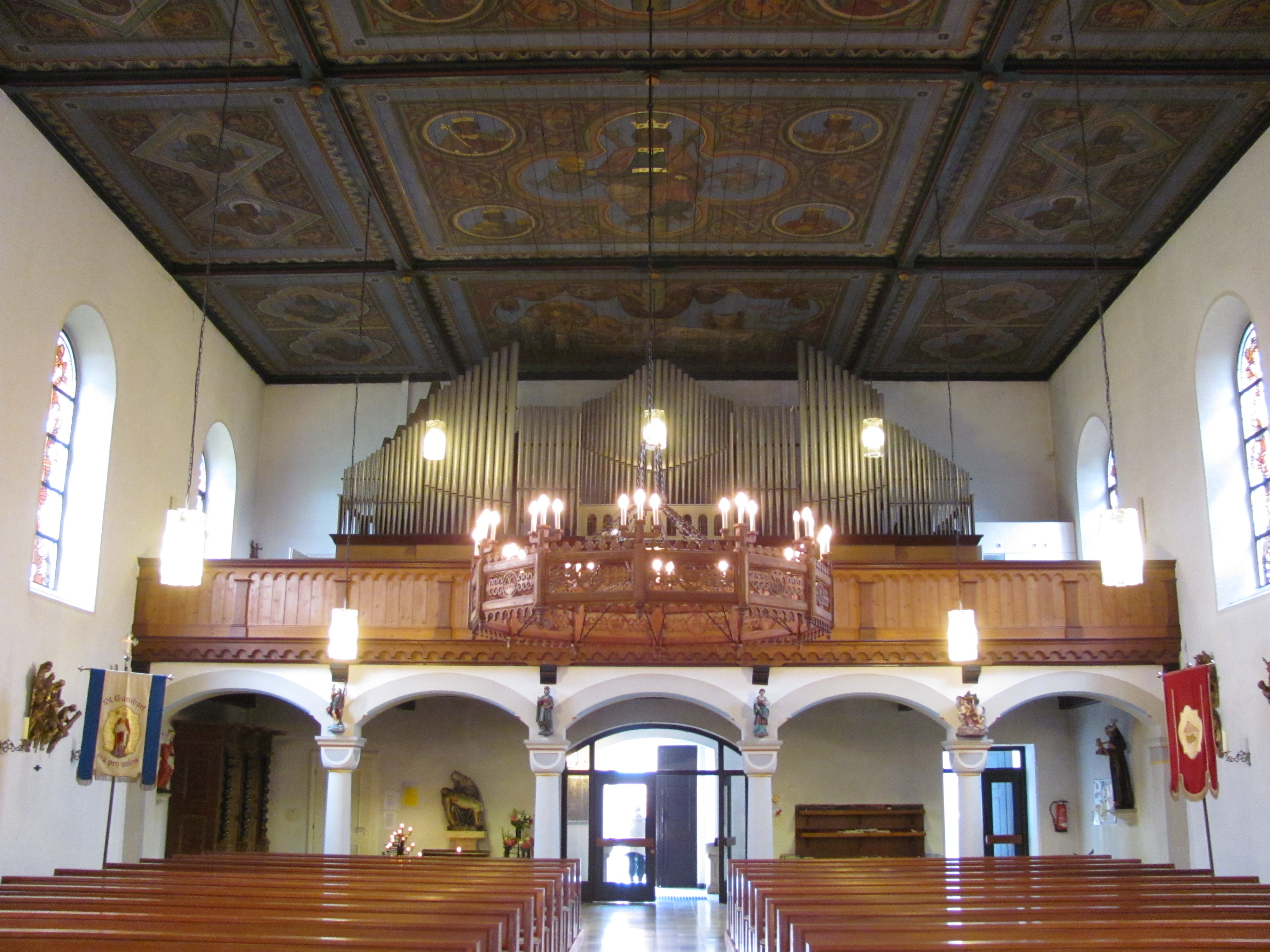 Wooden ceiling, St. Kunibert's Church, Hildesheim-Sorsum, Germany